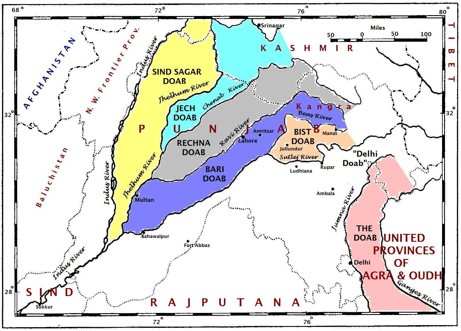 PNG version of the file File:Punjabdoabs1.jpg